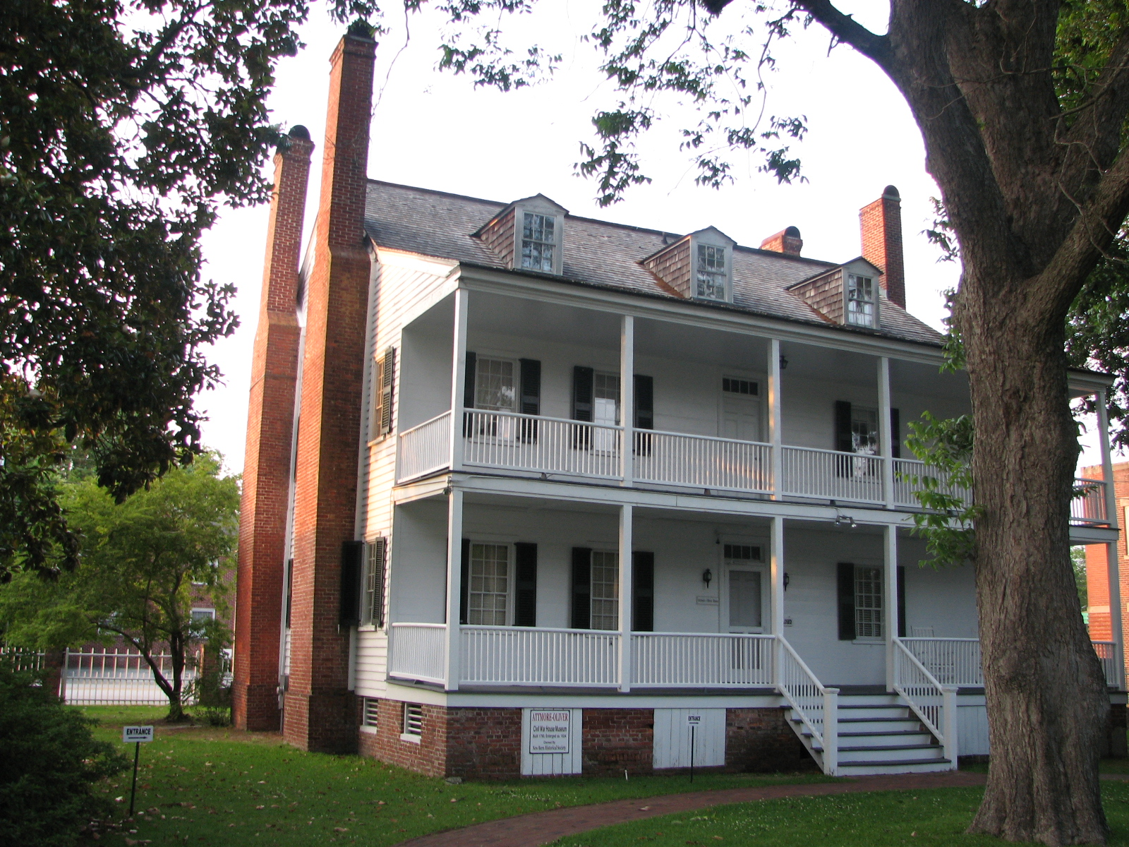 1790 Attmore-Oliver House, a historic house museum in New Bern, Craven_County, North Carolina.